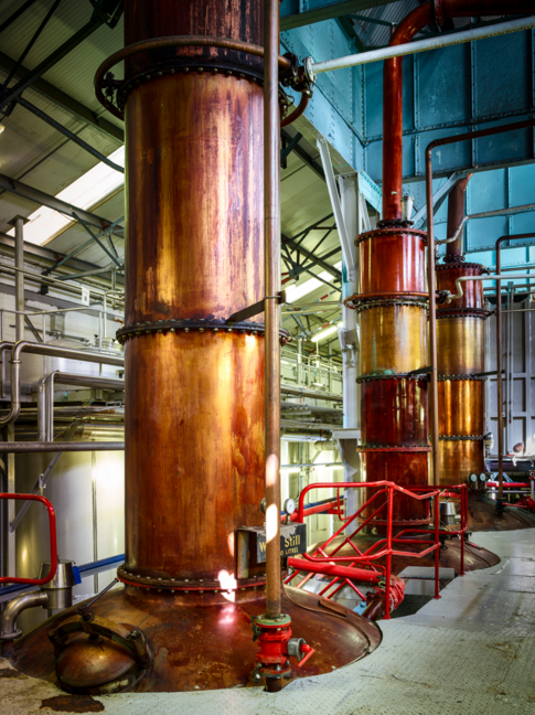 A photograph of the still inside Loch Lomond Distillery in Alexandria